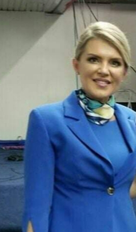 Draginja Vuksanović in 2018 during a visit to Bijelo Polje, Montenegro.